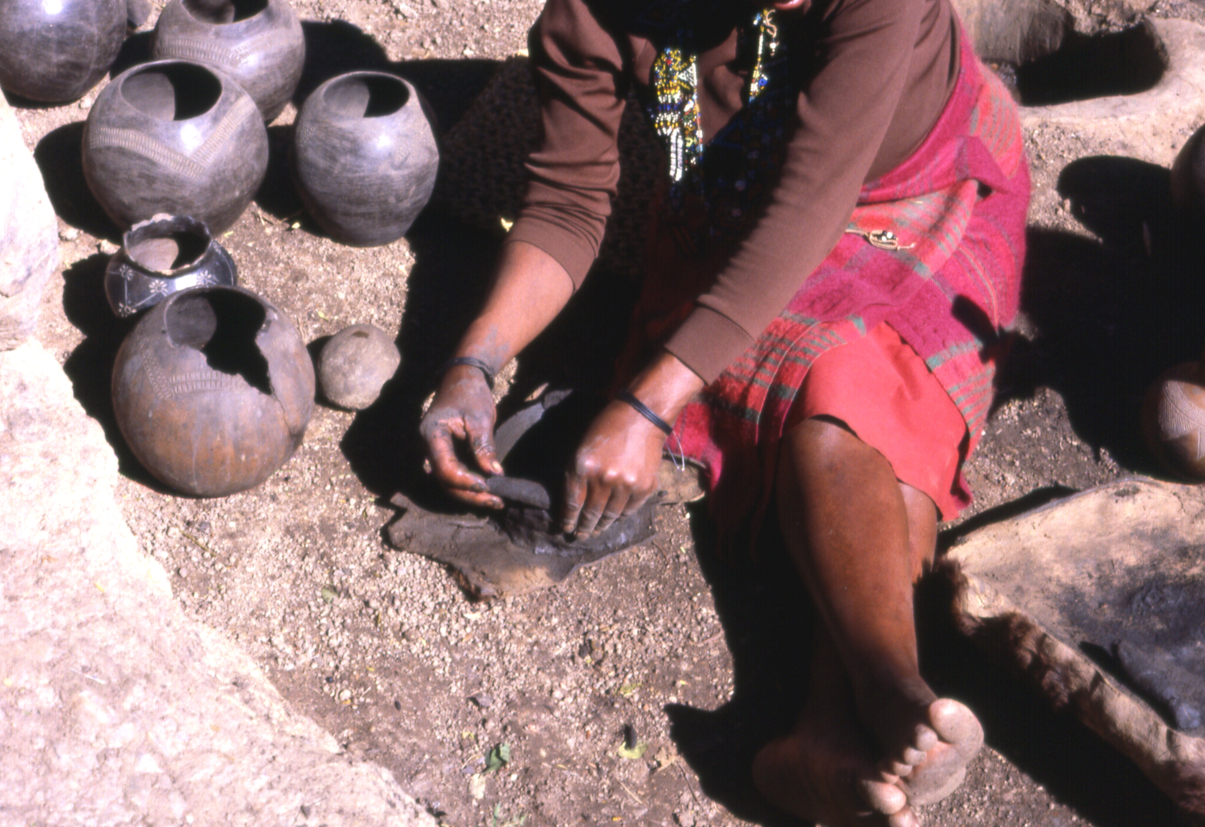 Zulu woman at a reconstructed traditional village in South Africa rolling clay for pottery making